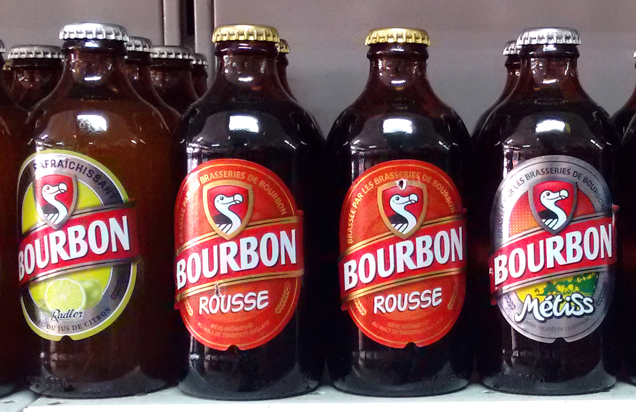 Bourbon beer (Dodo), Réunion Island